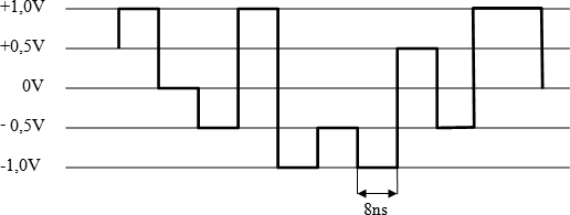 These are the five levels used in the 5 pulse amplitude modulation used at 1000Base-T (Gigabit Ethernet)